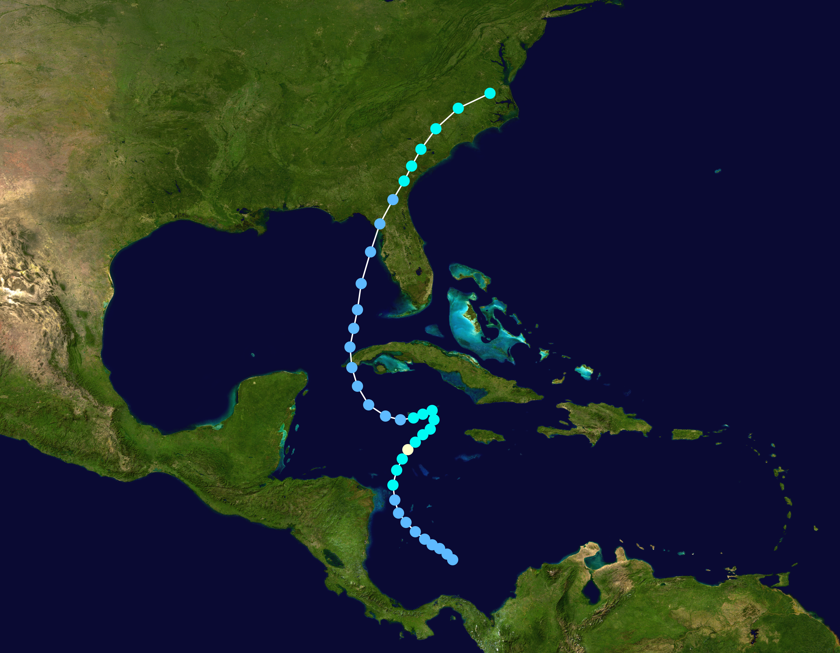 Hurricane Alma (1970) track. Uses the color scheme from the Saffir-Simpson Hurricane Scale.